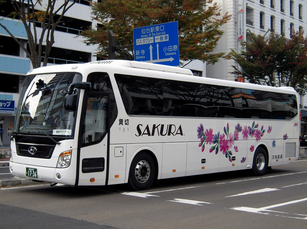 Sakura kotsu Hyundai Universe